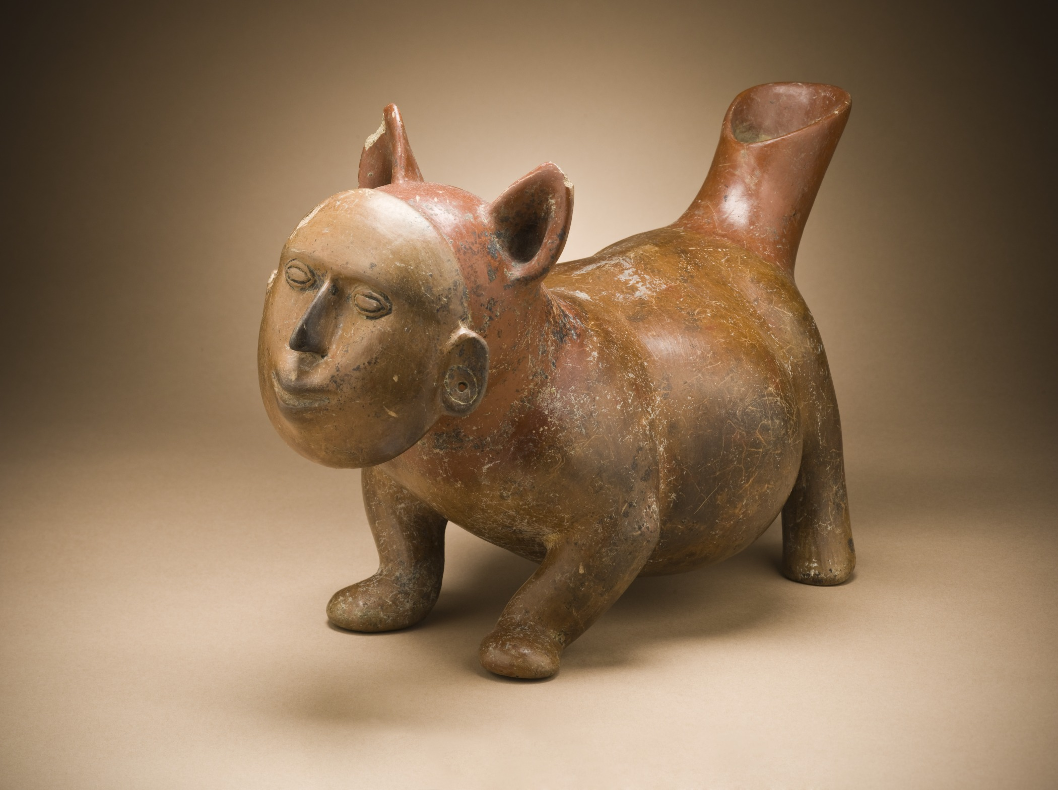 Mexico, Colima, 200 B.C. - A.D. 500 Sculpture Slip-painted ceramic The Proctor Stafford Collection, purchased with funds provided by Mr. and Mrs. Allan C. Balch (M.86.296.154) Art of the Ancient Americas Currently on public view: Art of the Americas Building, floor 4